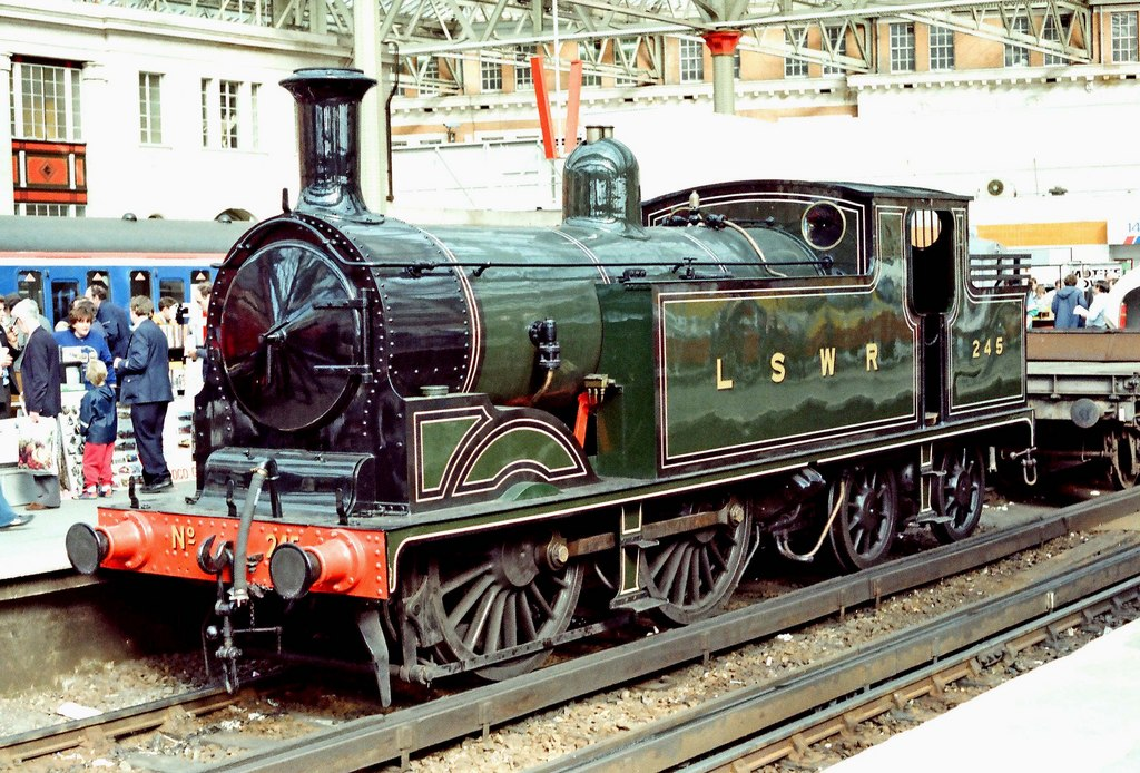 Network 150 Day - (11) LSWR Class M7 tank loco No. 245 (front view)